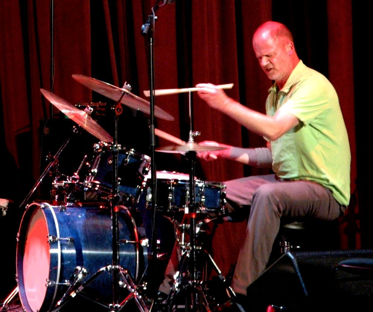 Drummer Whit Dickey performing at the world premiere of the David S. Ware Unit, which took place at International House in Philadelphia on 12 Jan 2007 as part of their "Seraphic Light" series.